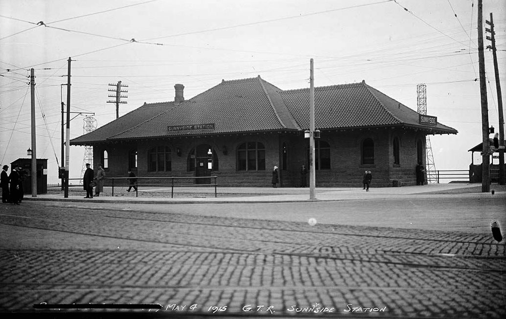 Photograph of Sunnyside Station in Toronto, from street-level.